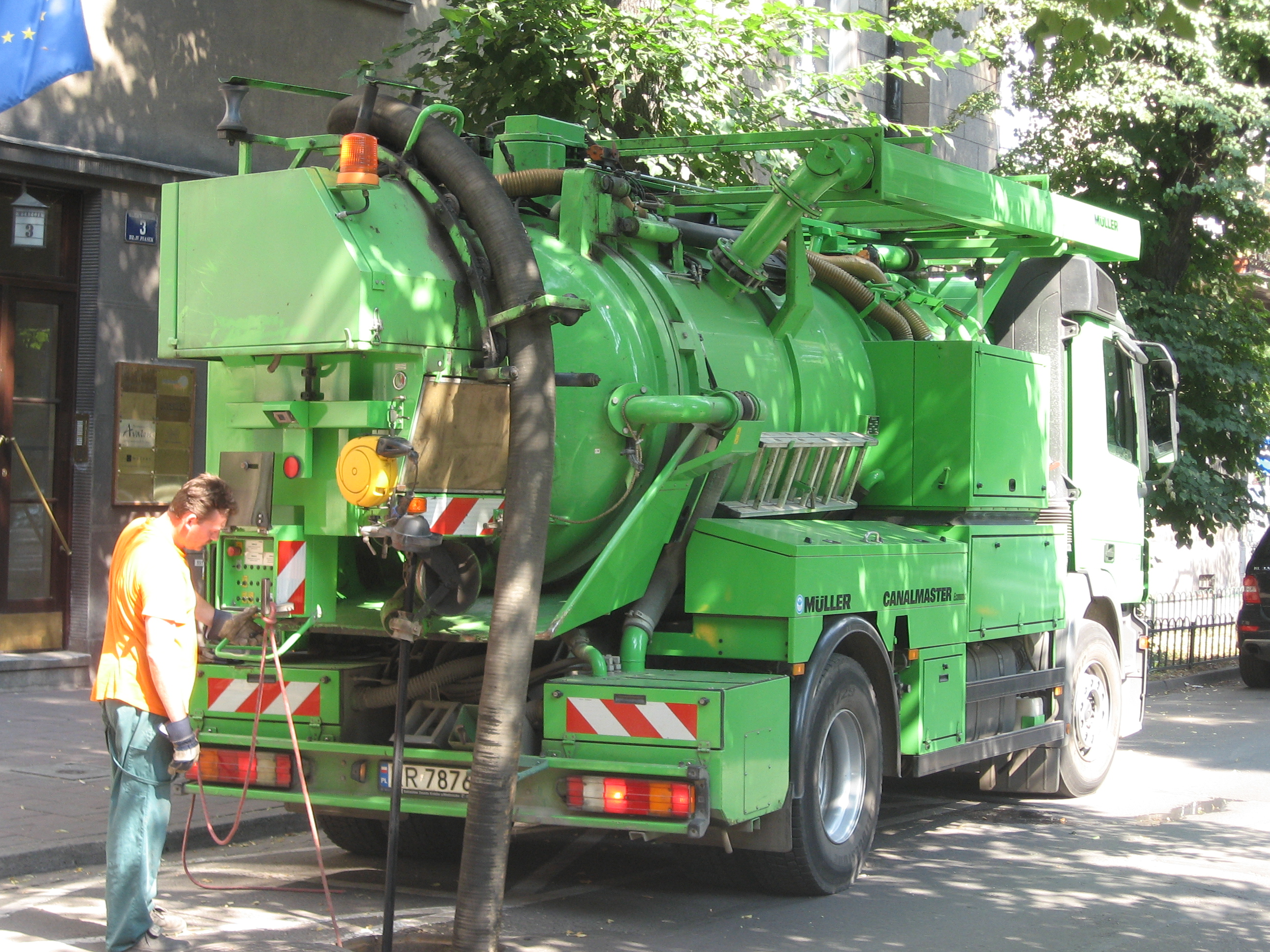 Mercedes-Benz Actros sewerage service truck on Wenecja street in Kraków.